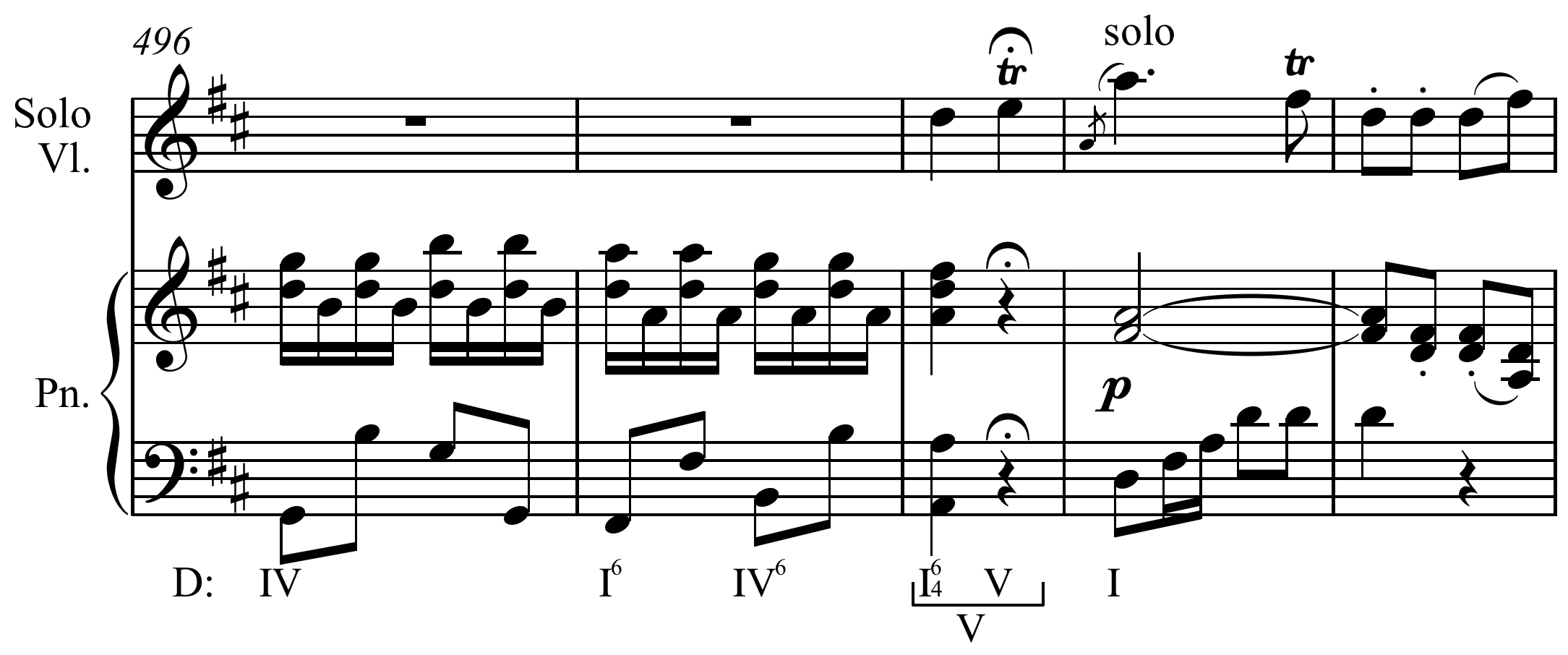 Cadenza in Mozart's Violin Concerto K. 271a, III, measures 496-470, arranged for violin and piano.